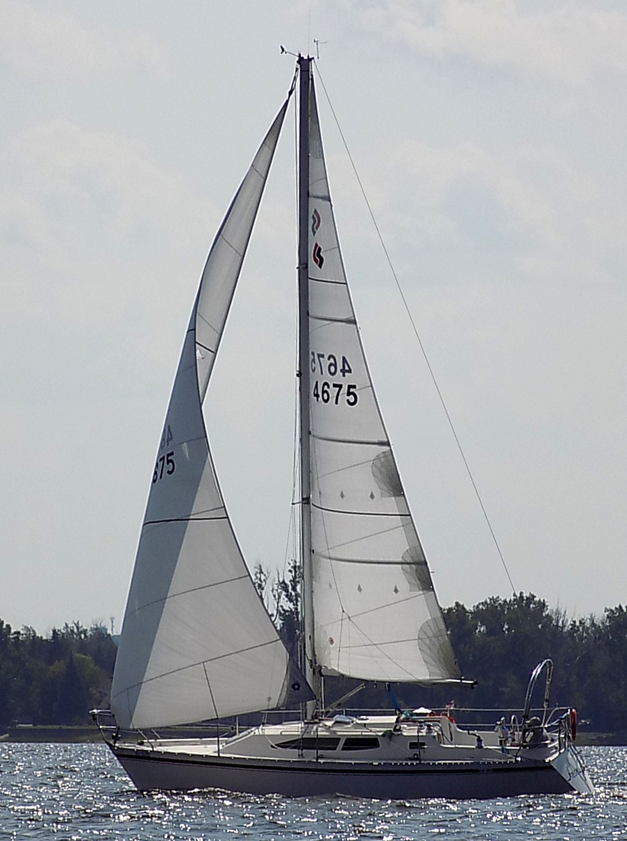 A CS 30 sailboat named Kelsea.